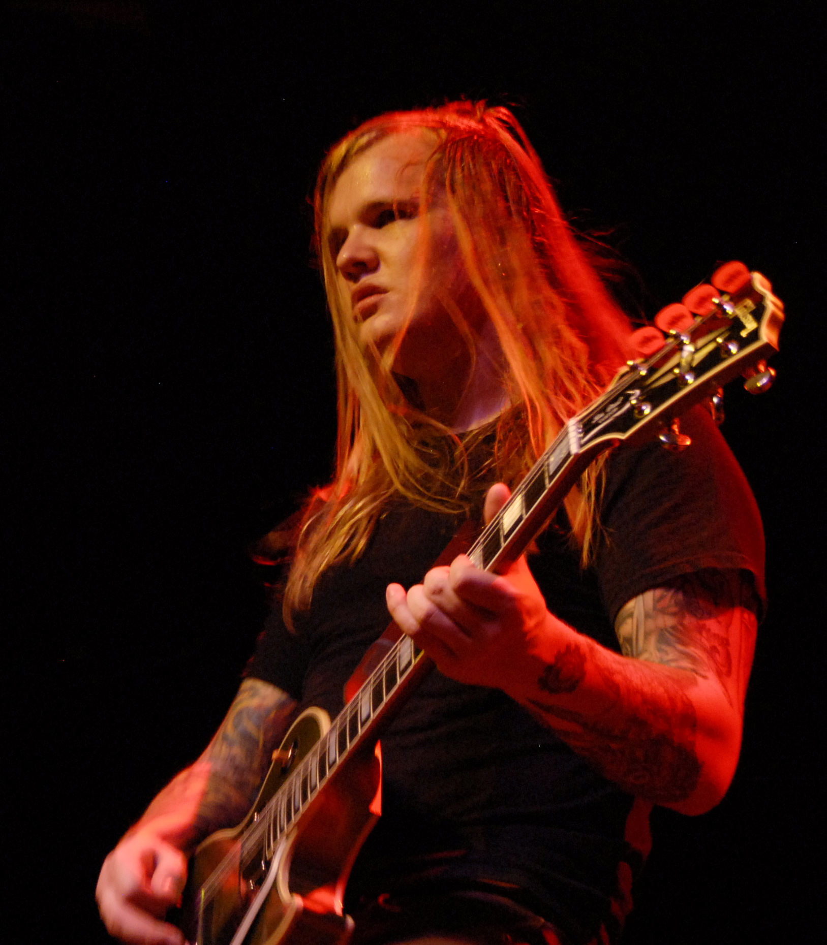 cropped and color-corrected version